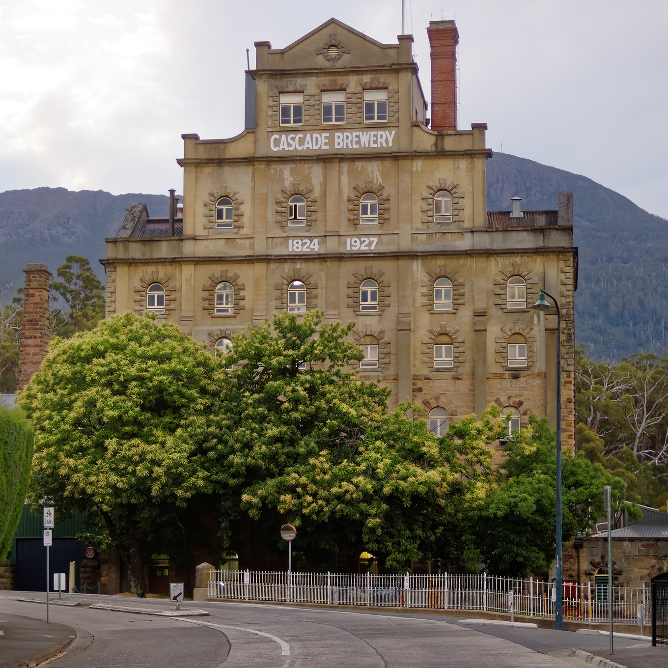 Cascade Brewery at sunset 2015. The title of this photo is incorrect. This is the Cascade Brewery, located in Tasmania, not the Coopers Brewery, located in South Australia